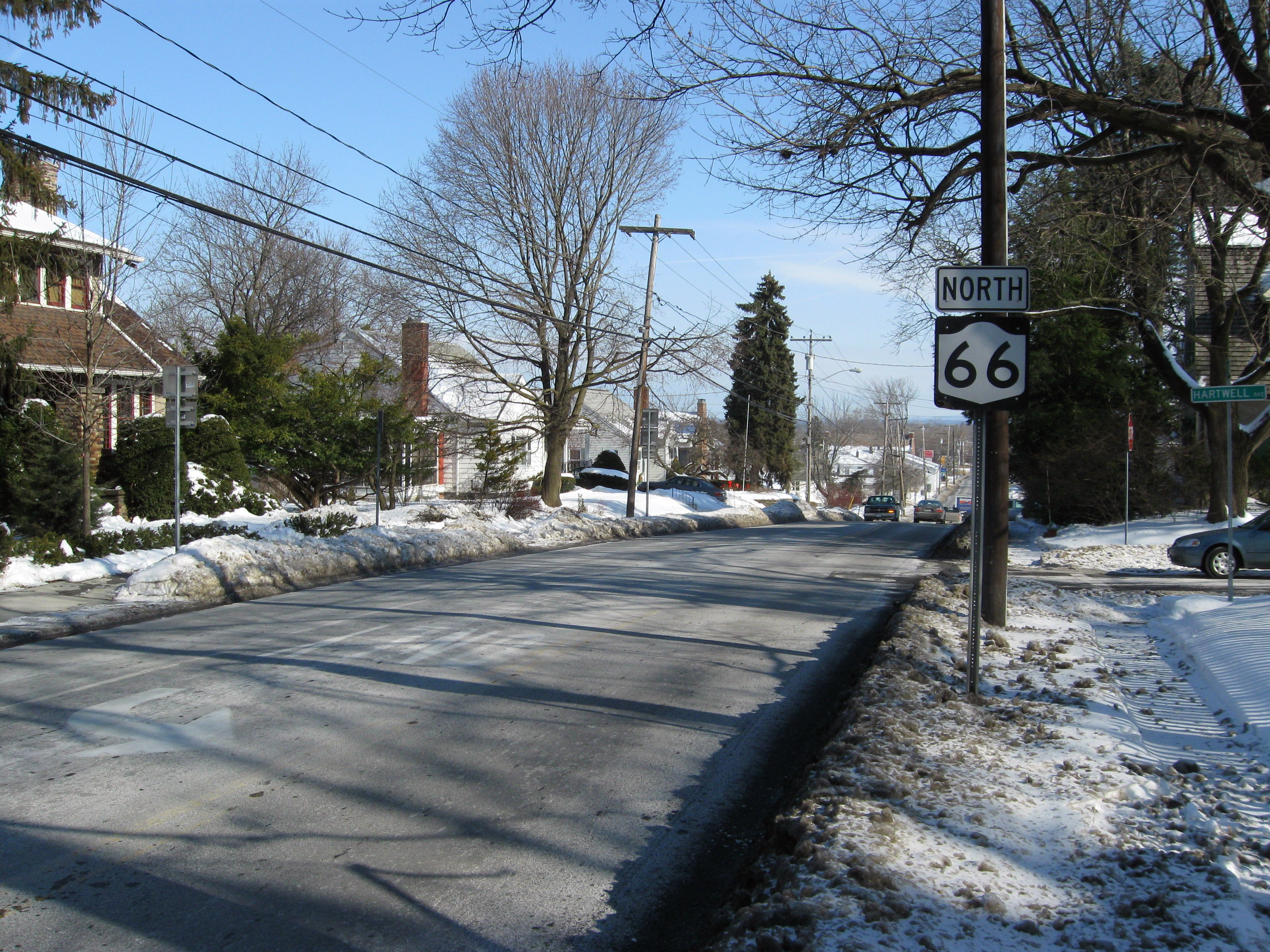 The southern beginning of New York State Route 66 in Hudsonm New York.